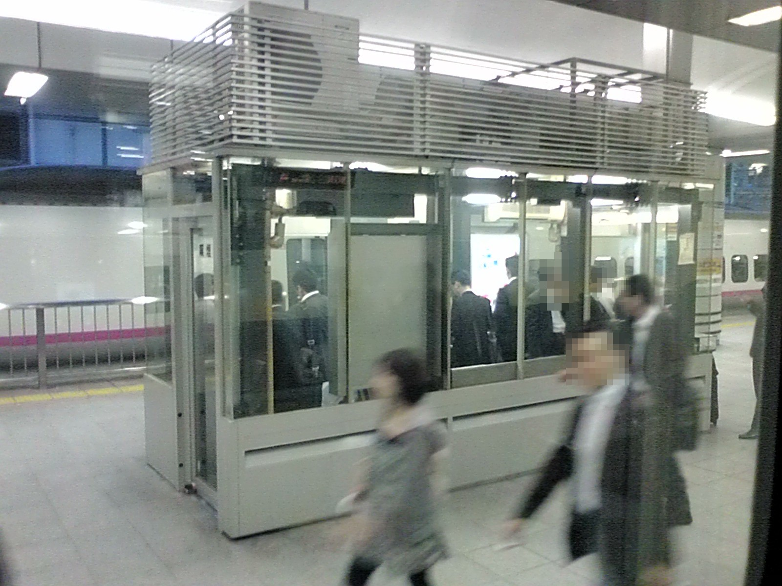 I was taken in Asia.